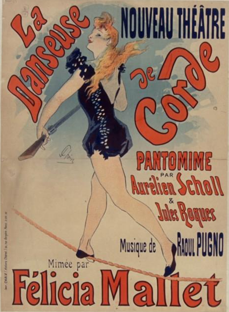 1891 poster advertising a pantomime performance of "La danseuse de corde" by Félicia Mallet at the Nouveau Théâtre.